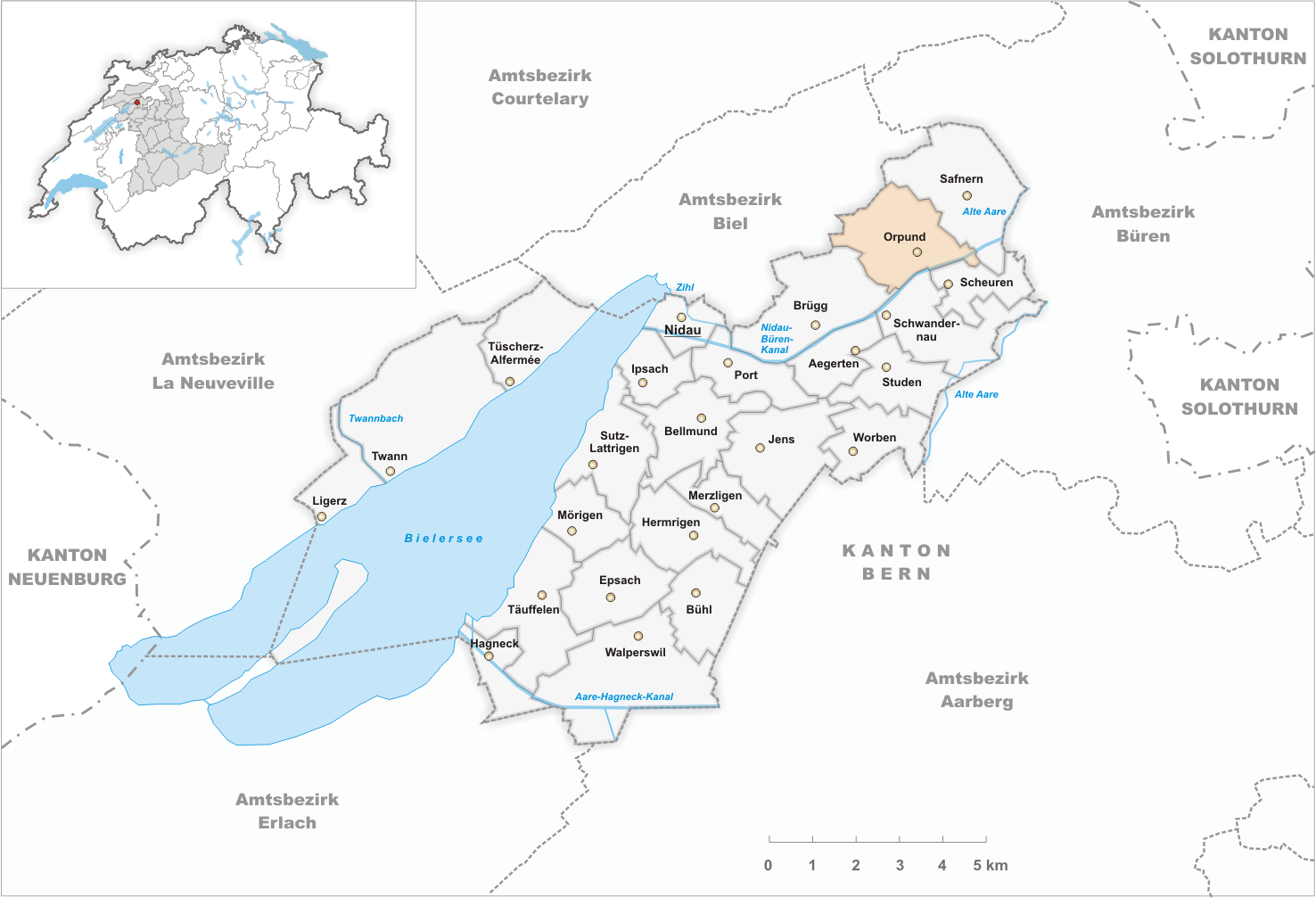 Municipality Orpund